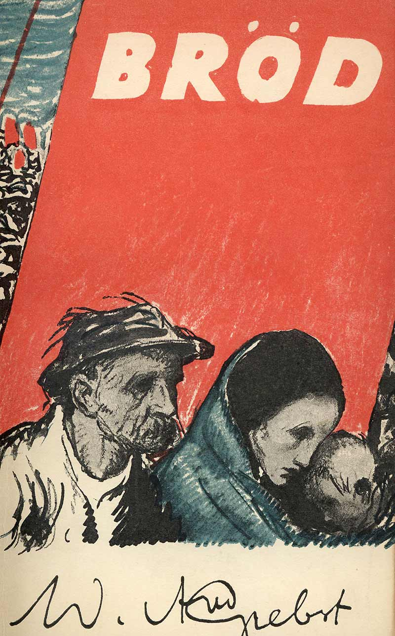 Book cover: Grebst, Bröd